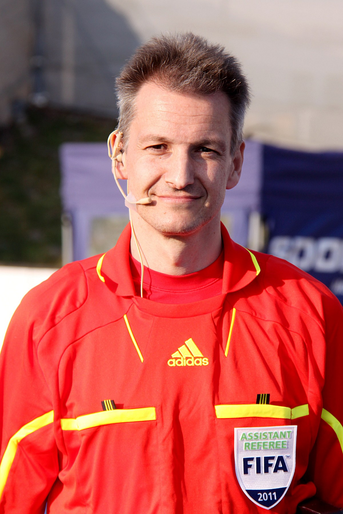 Andreas Fellinger, Referee of Austria